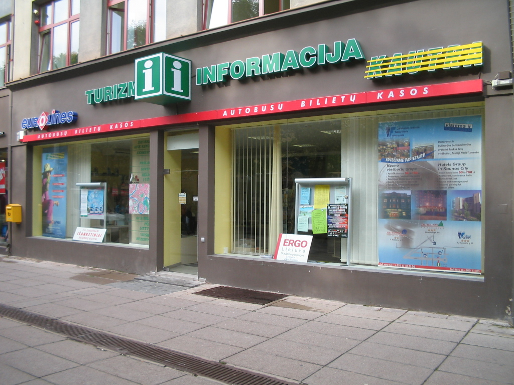 Tourist Information Office, Kaunas (Lithuania).